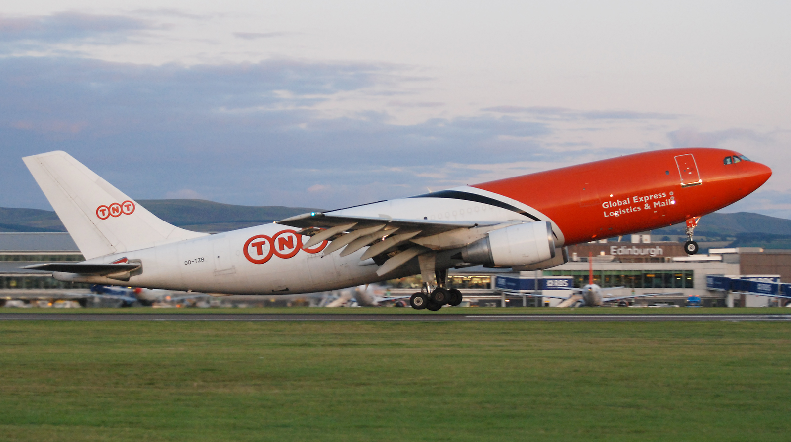 TNT Airways Airbus A-300B4-203 /F EGPH